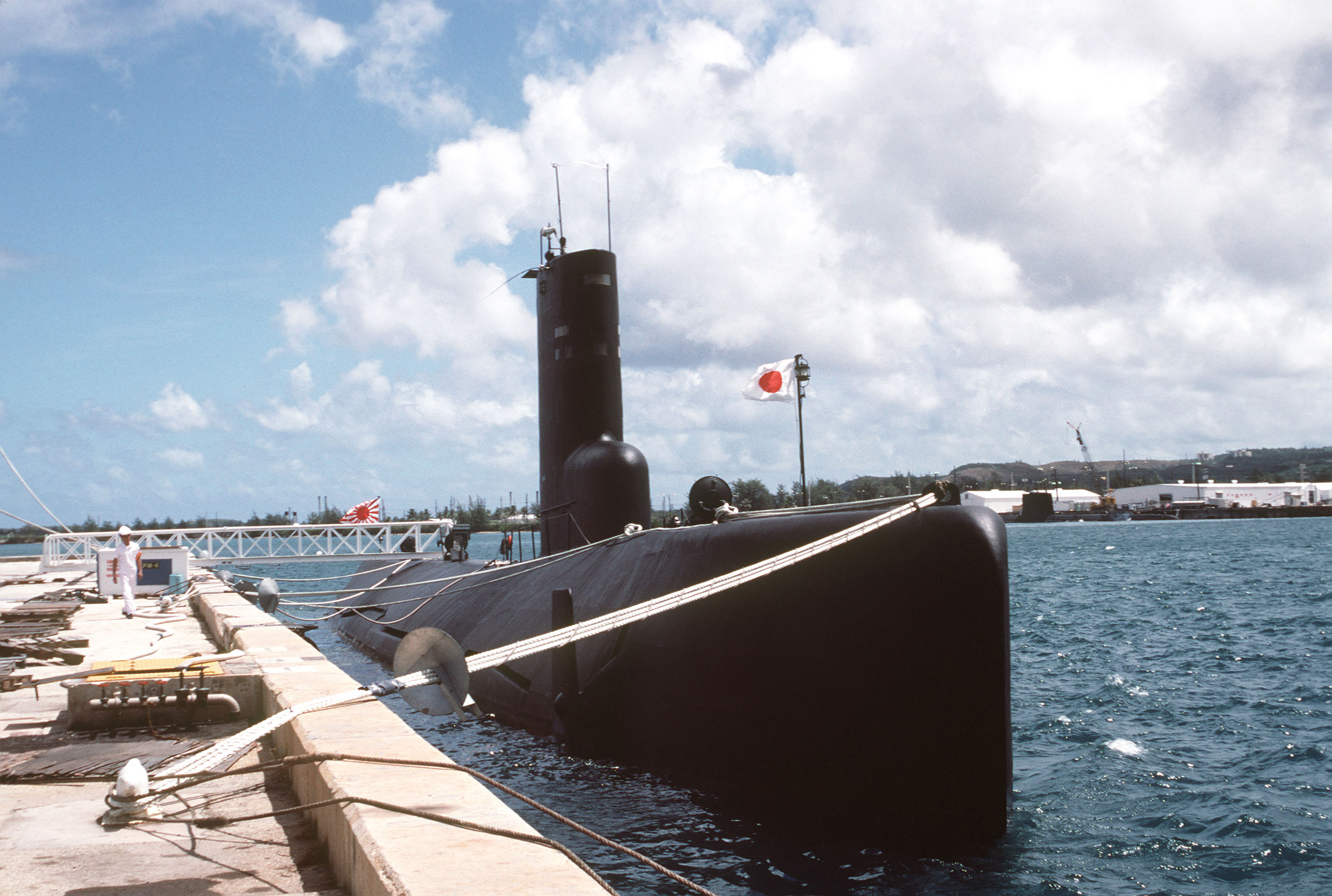 Starboard view of the Japanese submarine Arashio (SS-565) moored in Apra Harbor.